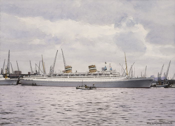 Dutch liner s.s. Nieuw Amsterdam at Rotterdam (Holland America Line). Aquarel/Gouache by Dutch maritime painter W.J.Hoendervanger.